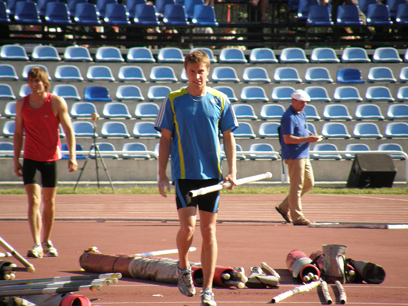 Łukasz Michalski - 2010 Polish Championships in Athletics (Bielsko-Biała)